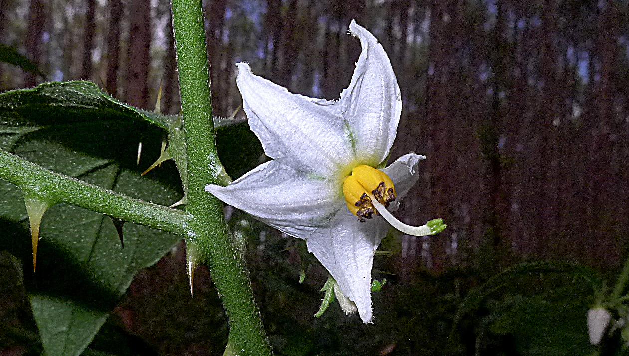 Solanum asterophorum Mart.